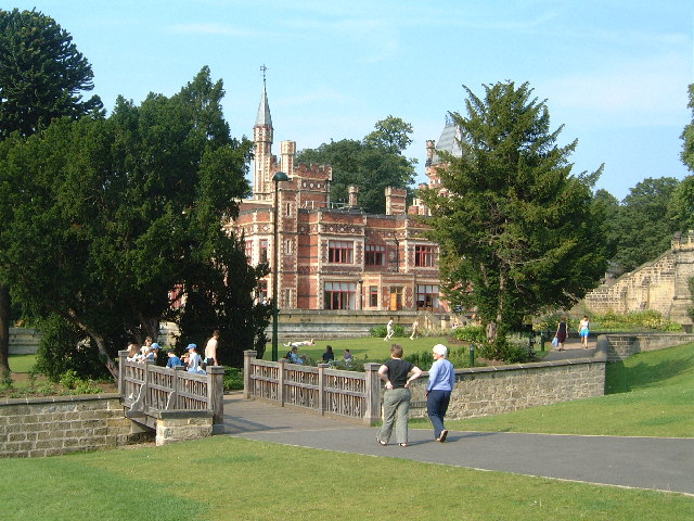 Saltwell Towers. The towers now serve as a tea room and have information about Saltwell Park's past.